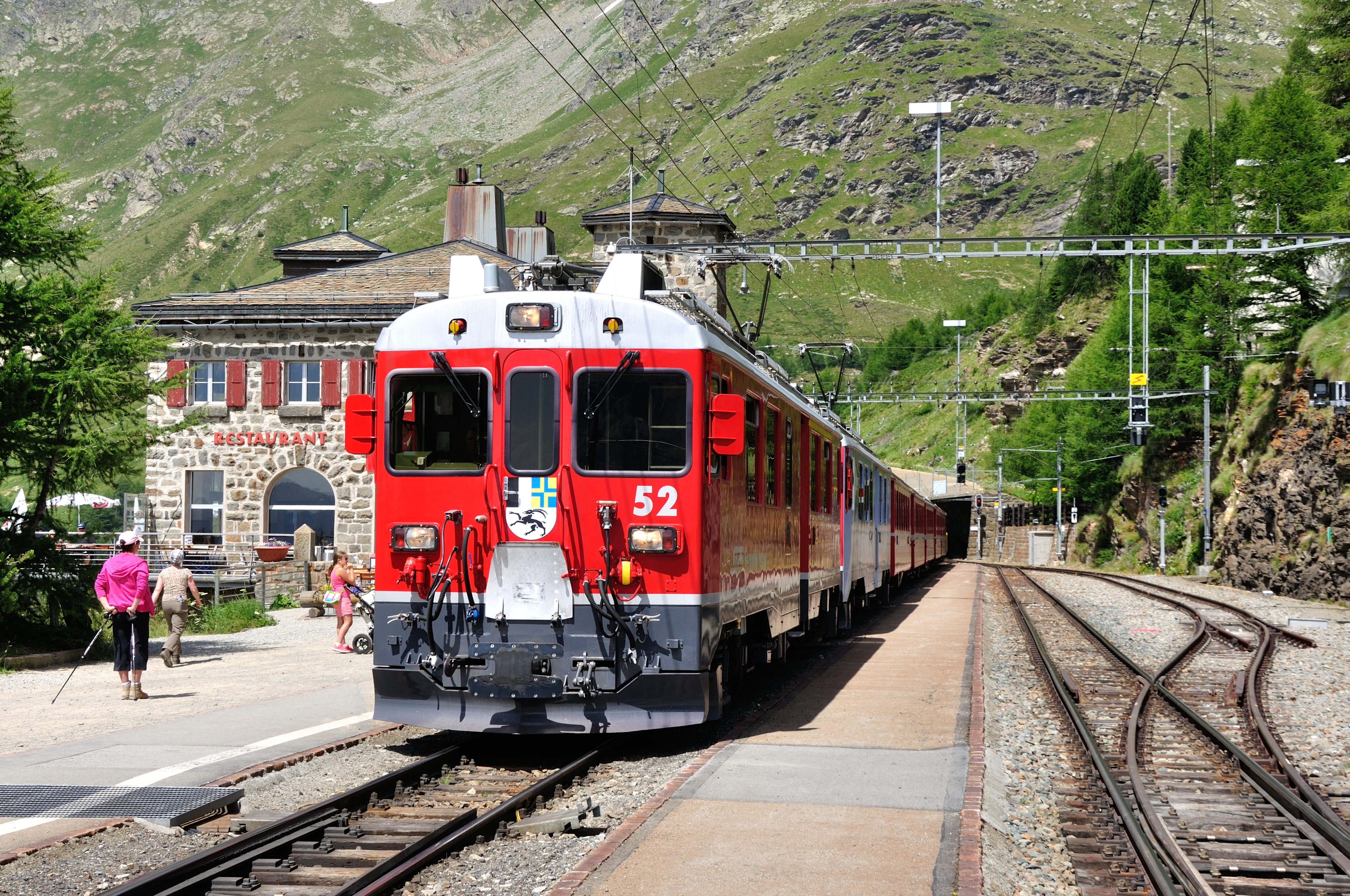 Switzerland, Graubünden, views along the hiking trail from Bernina Pass to Alp Grüm